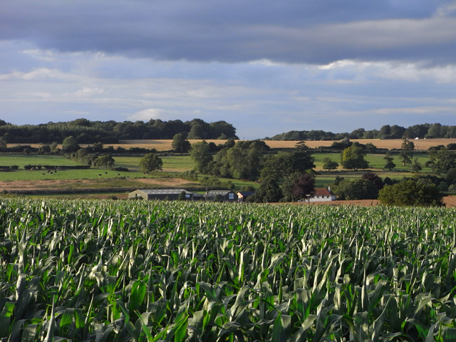 Farmland, Bishop's Sutton Looking down from Tegg Down Road towards Ropley Dean. The crop is maize.